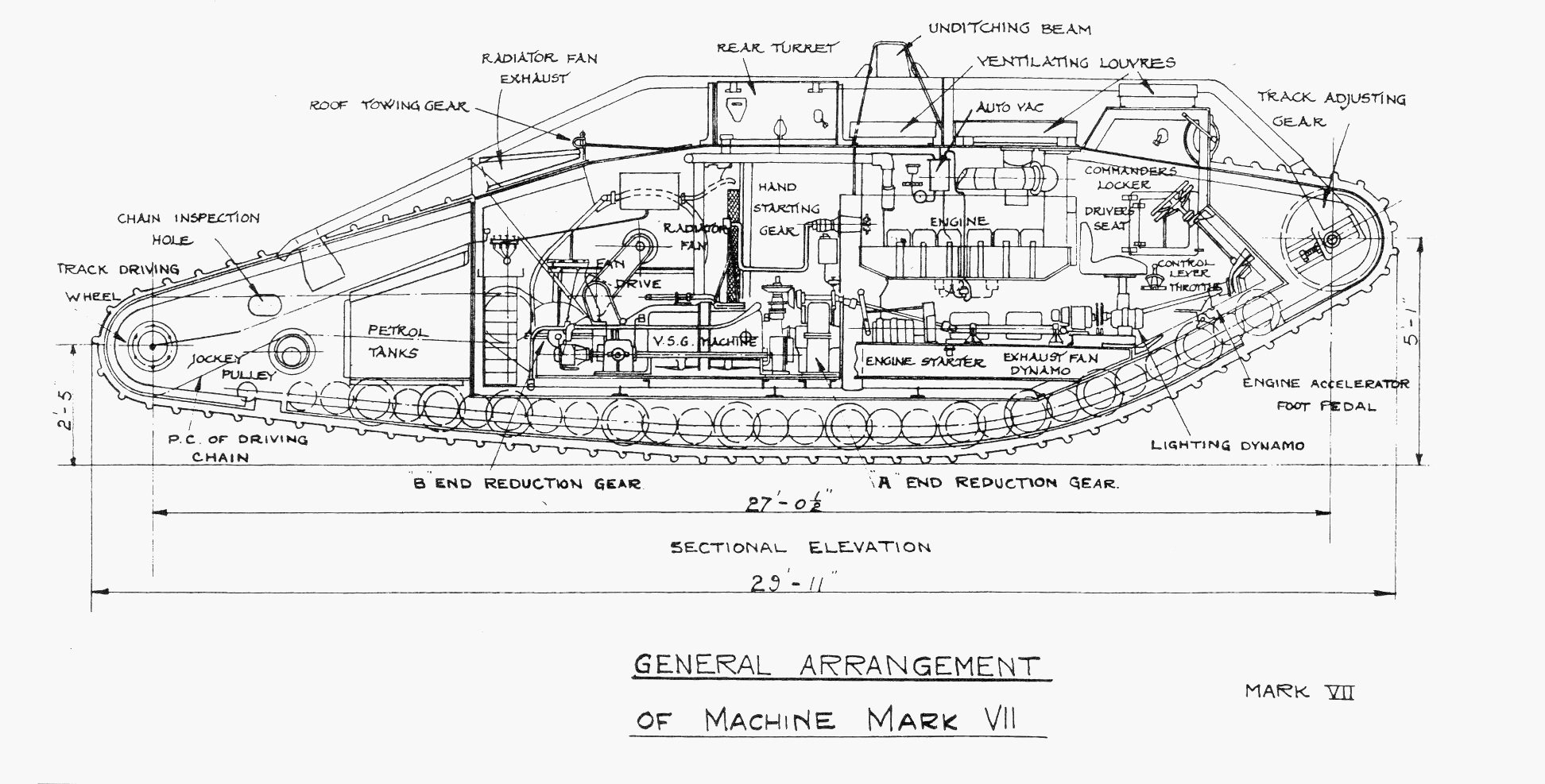 Diagram showing layout of Mark VII tank